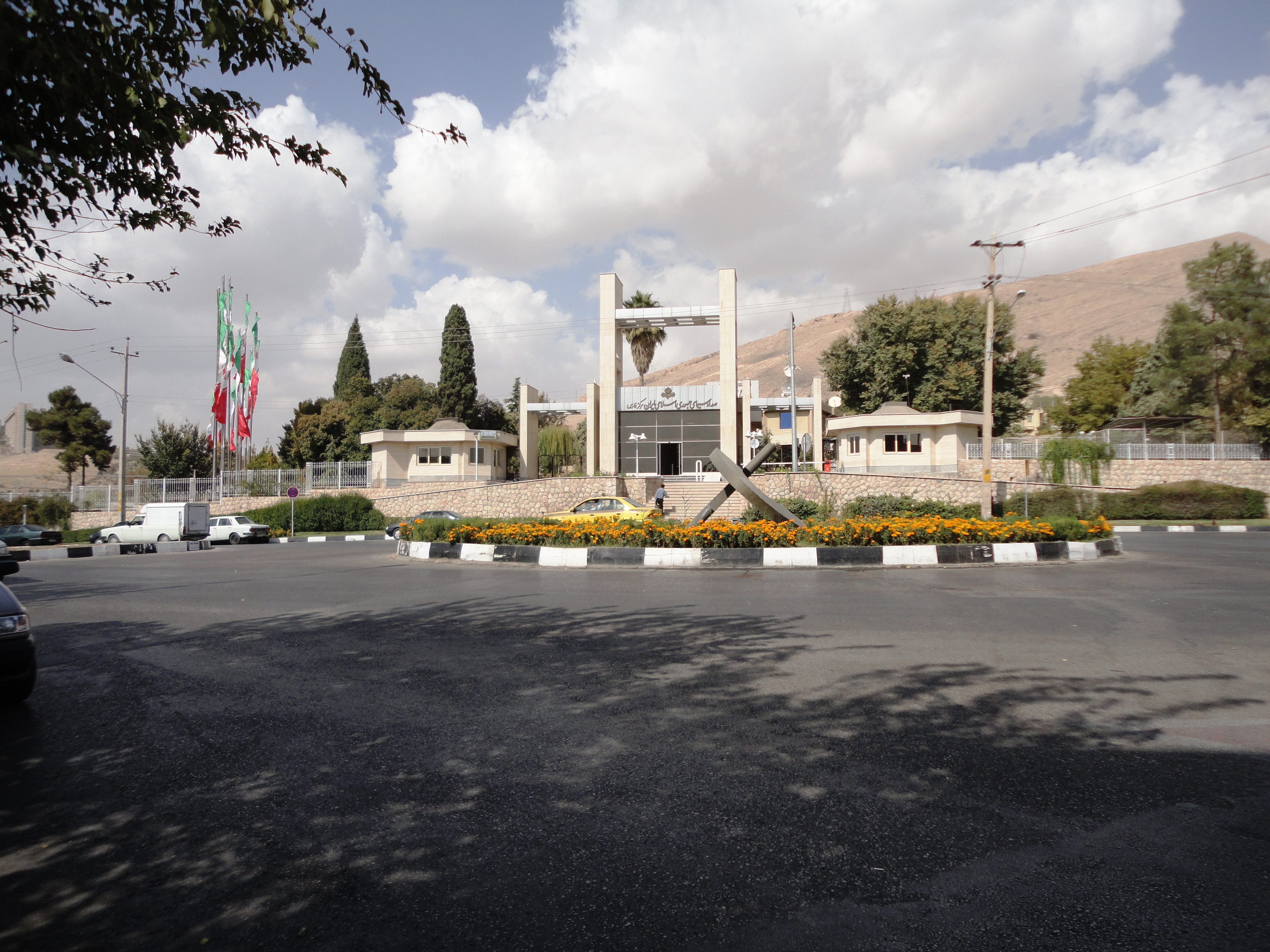 fars IRIB